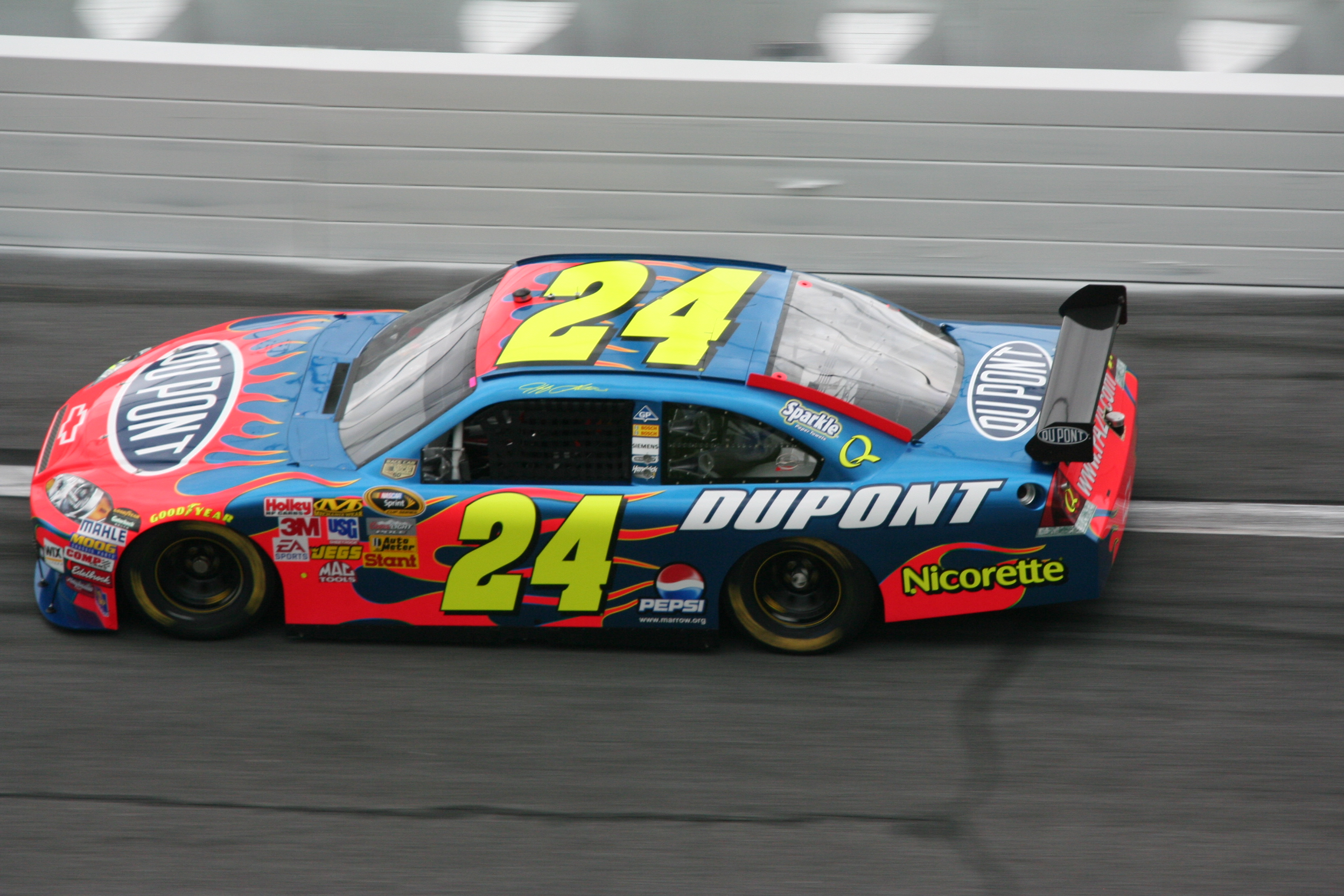 Shot by The Daredevil at Daytona during Speedweeks 2008